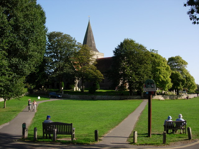 Cathedral of the Downs - Alfriston. The majestic church of St. Andrew was founded in 1272 and stands sentinel over the Tye.